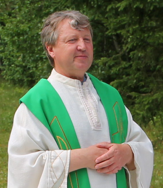 Vavřinec Skýpala during the holy mass in Svatá Maří